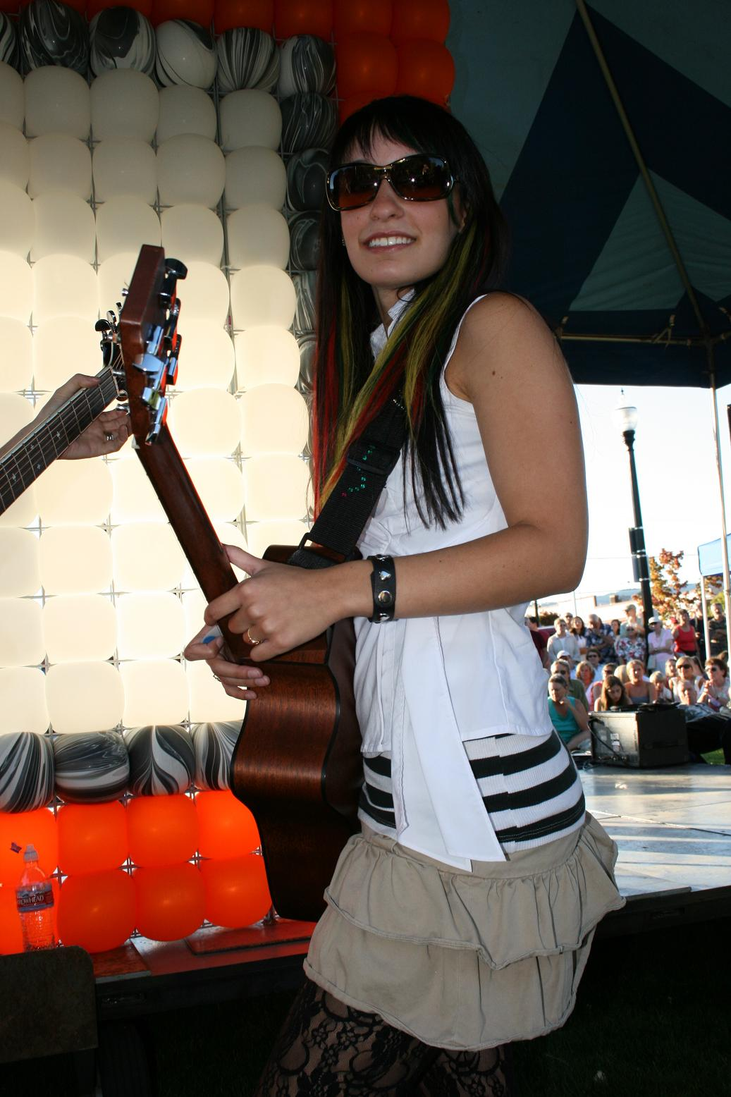 Becca playing with Meredith Brooks at the Corvallis 150th celebration